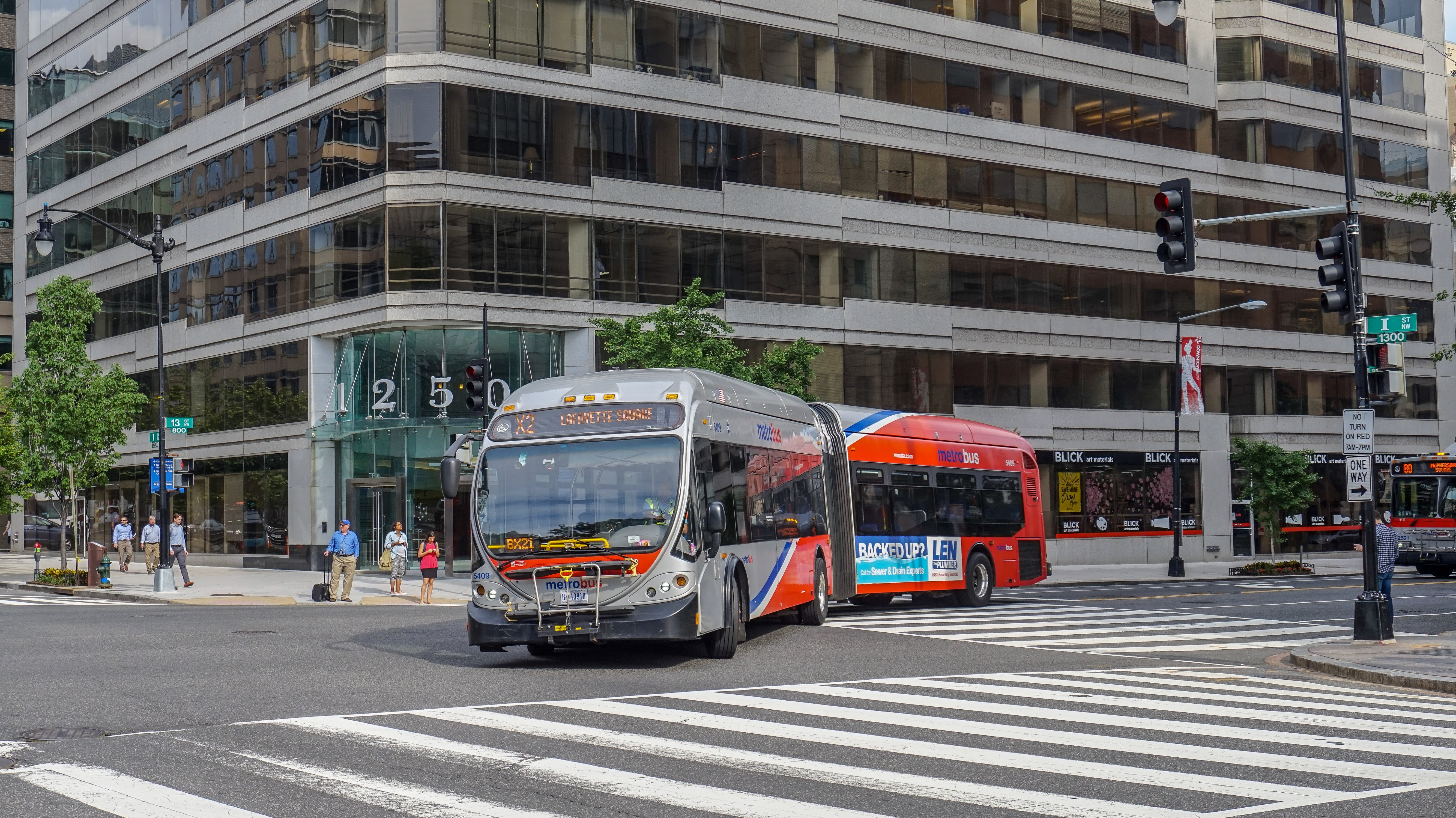 Here is a WMATA 2008 NABI 60 BRT CNG on Route X2 at Franklin Square